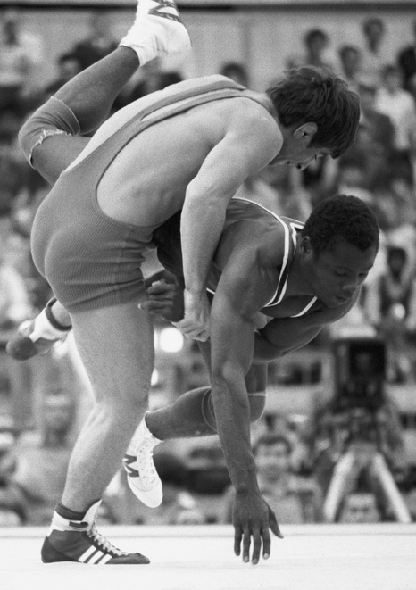 “Magomedgasan Abushev vs. Augustin Atasi”. The 22nd Summer Olympics. A bout between wrestlers Magomedgasan Abushev (USSR), left, gold winner at the 1980 Olympics, and Augustin Atasi (Nigeria), right. Men's Freestyle 62kg competition.